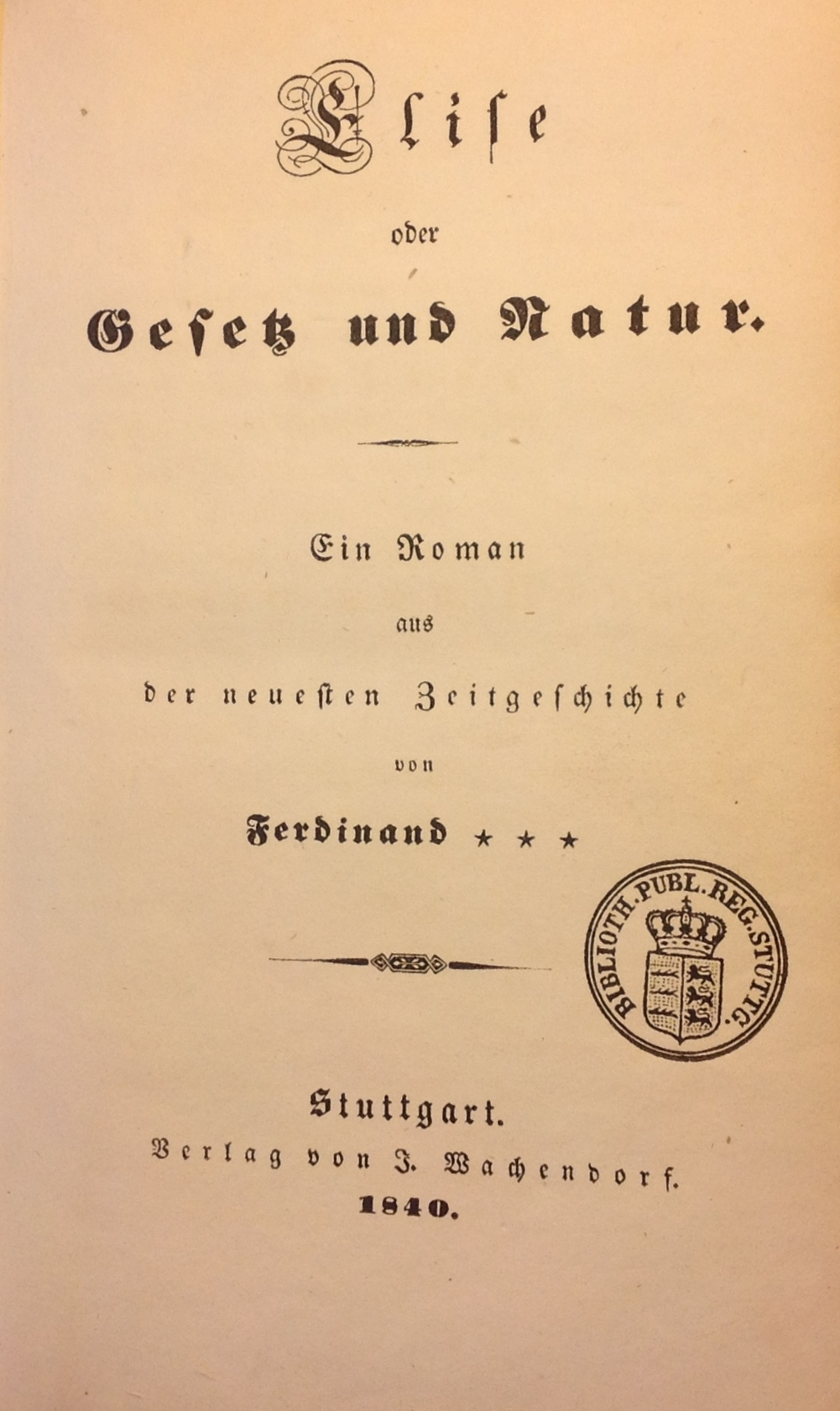 title page of: Elise oder Gesetz und Natur